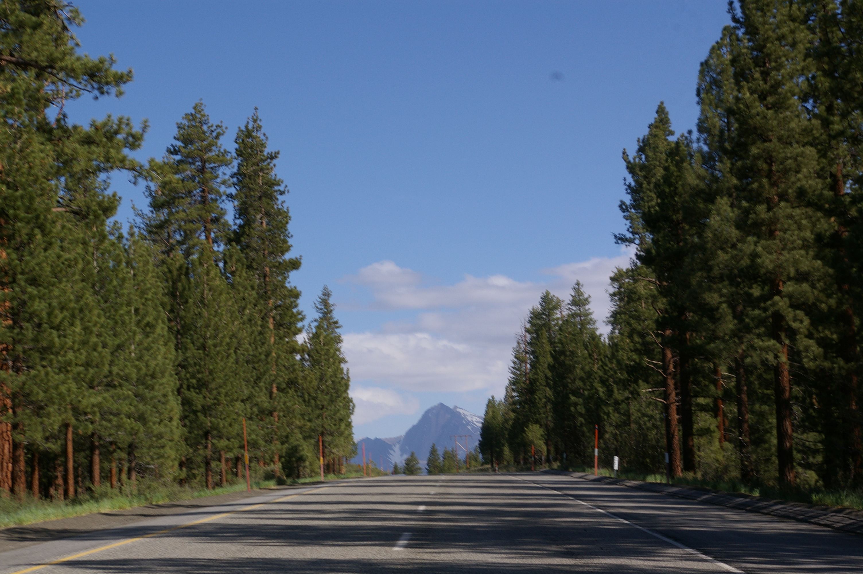 U.S. Route 395 over Deadman's Summit in the Sierra Nevada near Mammoth Lakes